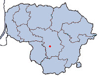 Situation of Kaunas in Lithuania